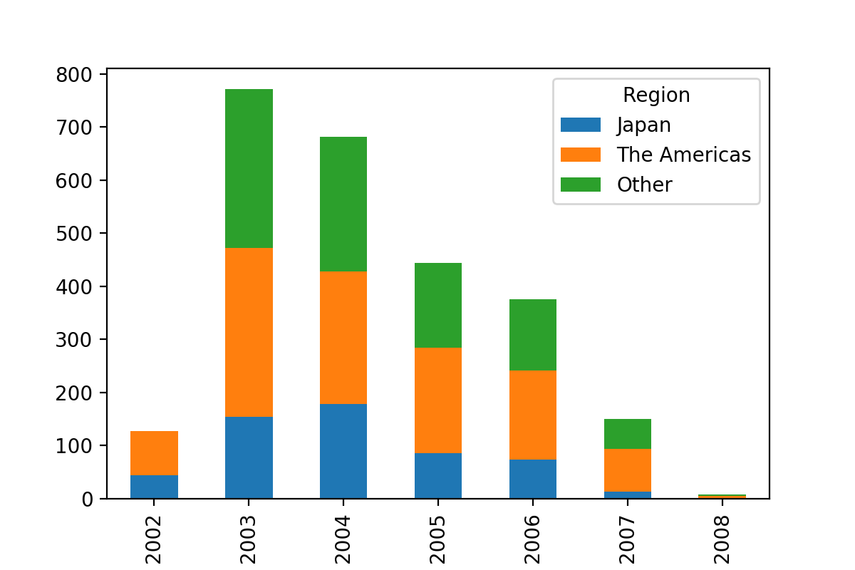 Number of Nintendo GameCube Software Titles Released as of March 31, 2019 by Region